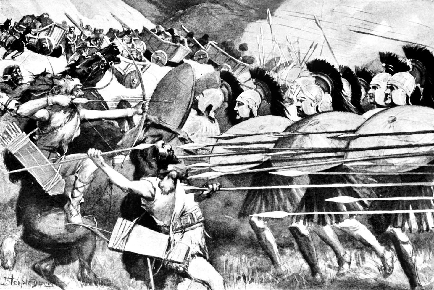 The Macedonian phalanx at the Battle of the Carts against the Thracians in 335 BCE